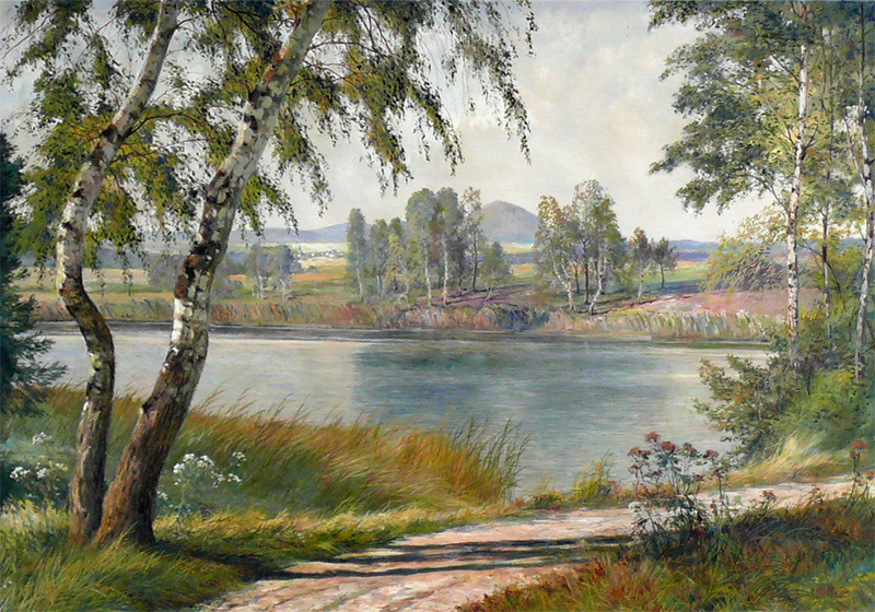 Landscape in Novy Bor